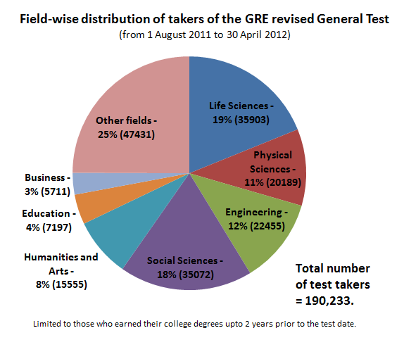 field wise distribution, from 1st august 2011 to 30th april 2012.